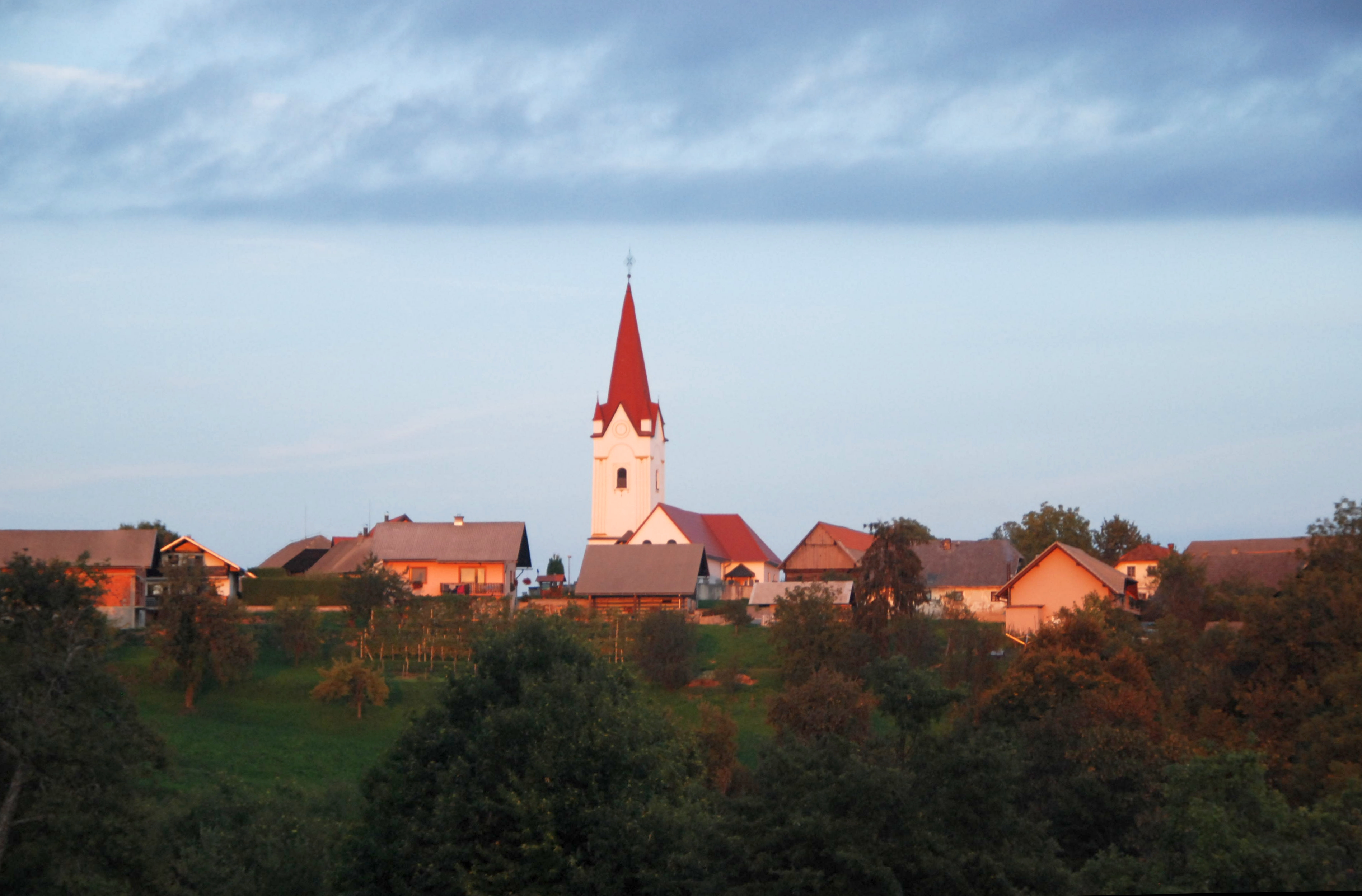 Slančji Vrh, a village in the Municipality of Sevnica, southeastern Slovenia. View from the west.